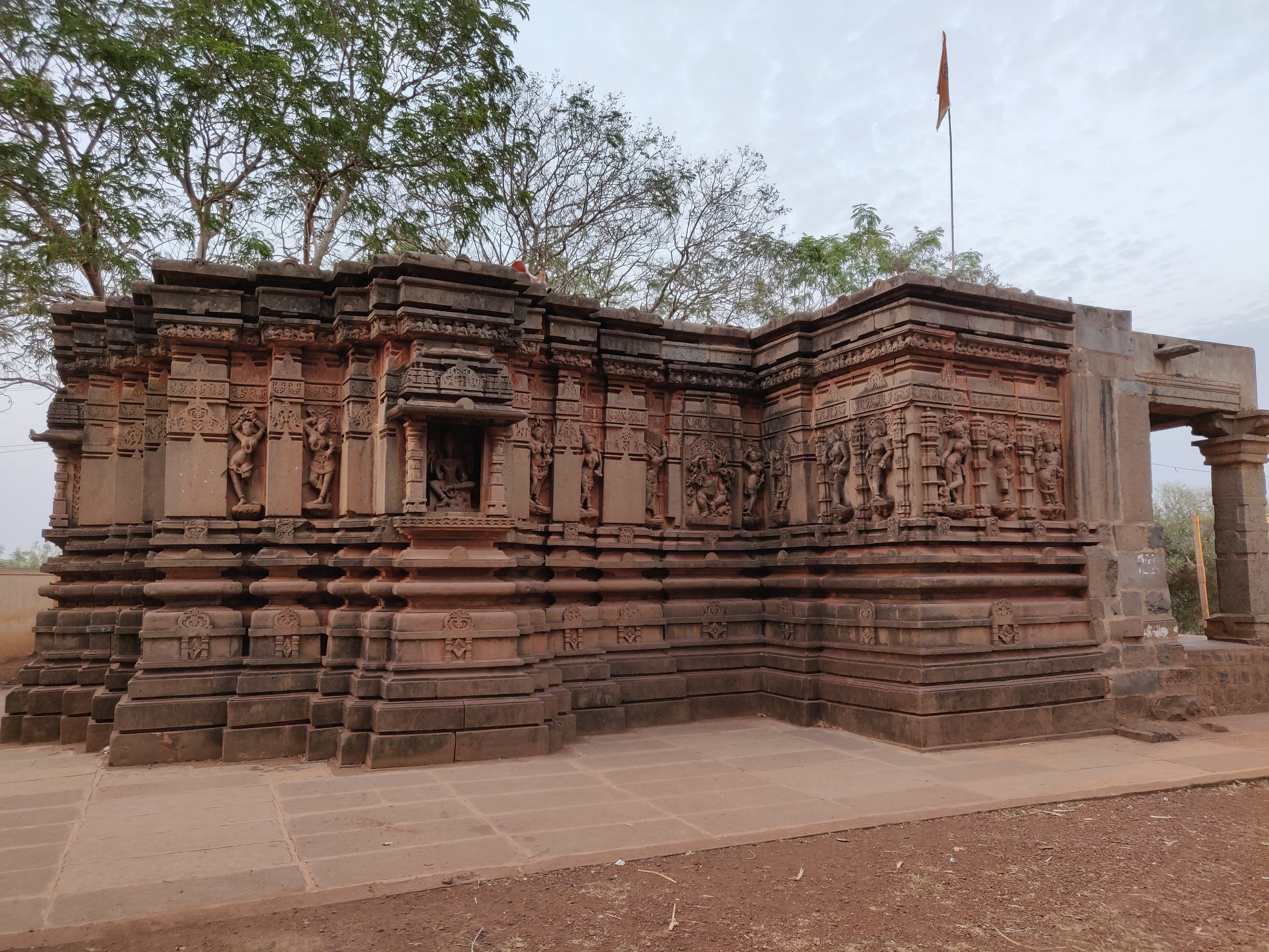 Pictures clicked in Iswara temple in Jalasangvi, Humnabad town, Bidar district, Karnataka. The temple is also known as Jalasangvi temple, Kamalishwara temple, Kamaleshwara temple, Kalleswara temple. The temple is of Chalukyan style. Built around 1100 AD with stone.